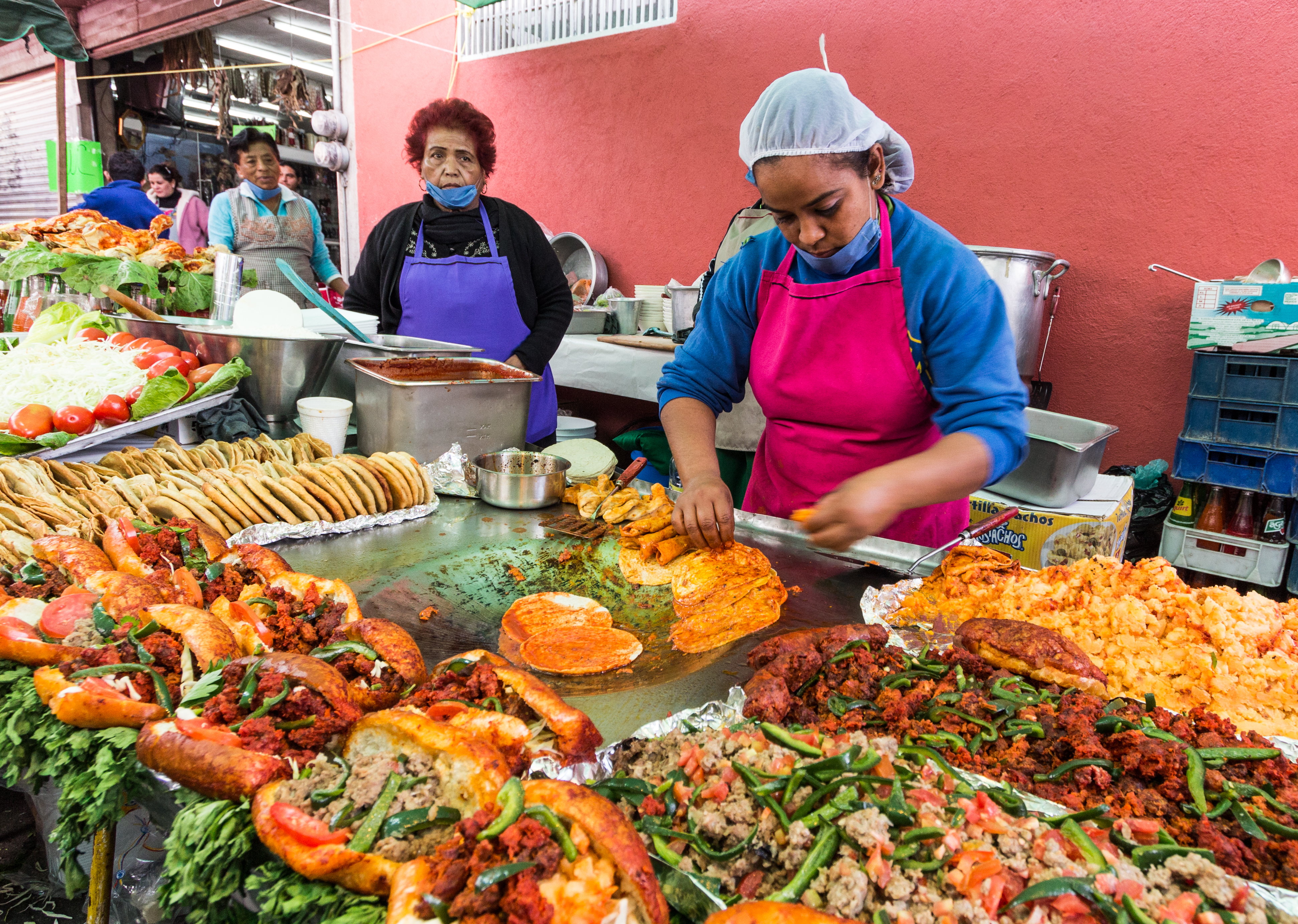 Delicious street food on a Mexican street. Not recommended for weak stomachs. Photo taken in Leon, Guanajuato, Mexico